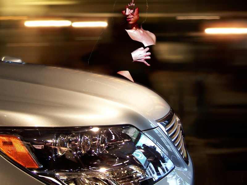 LED headlights, world first on production cars, on the Lexus LSh.